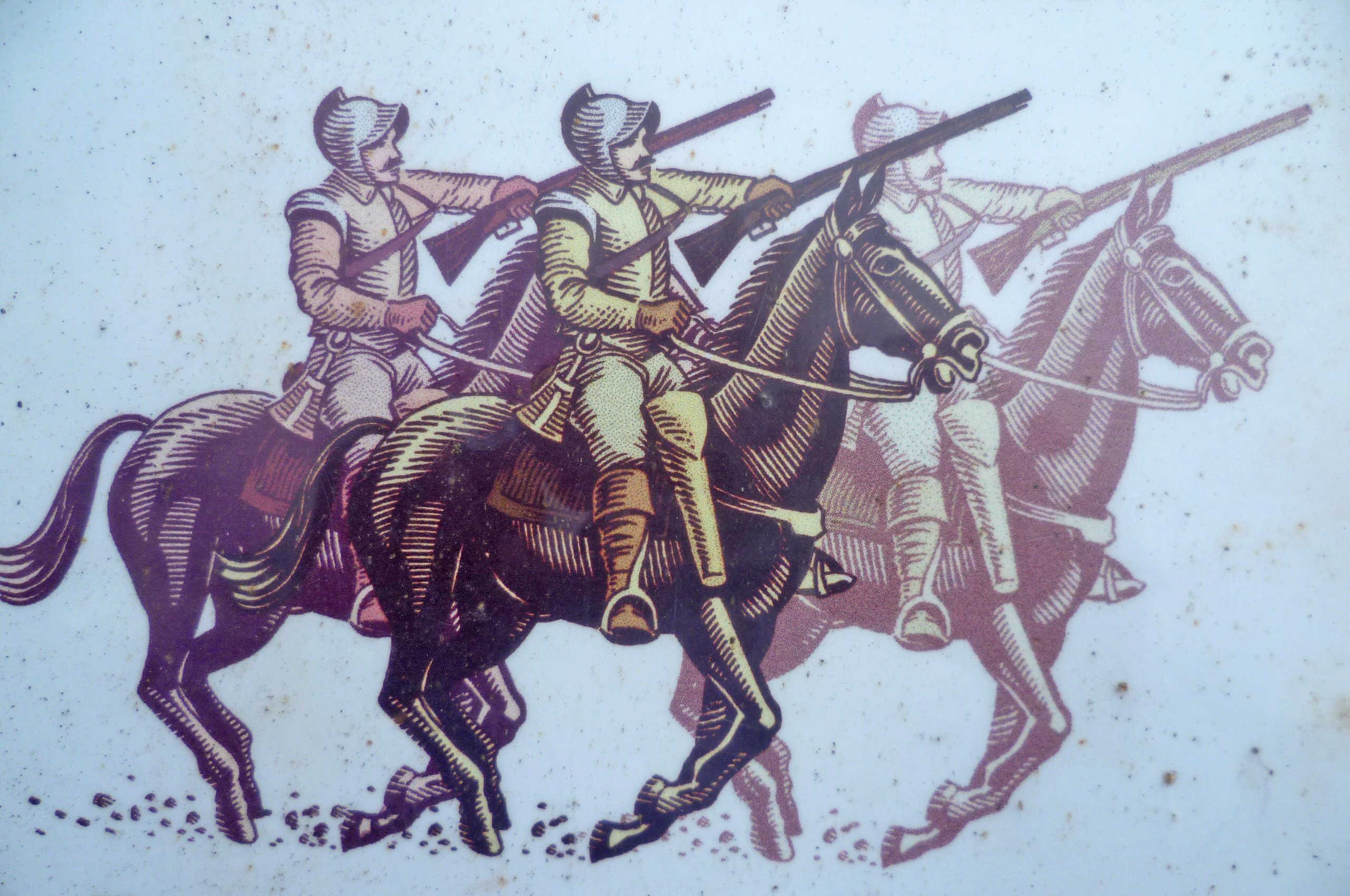 Dragoons illustrated on an information board near Pitreavie Castle.